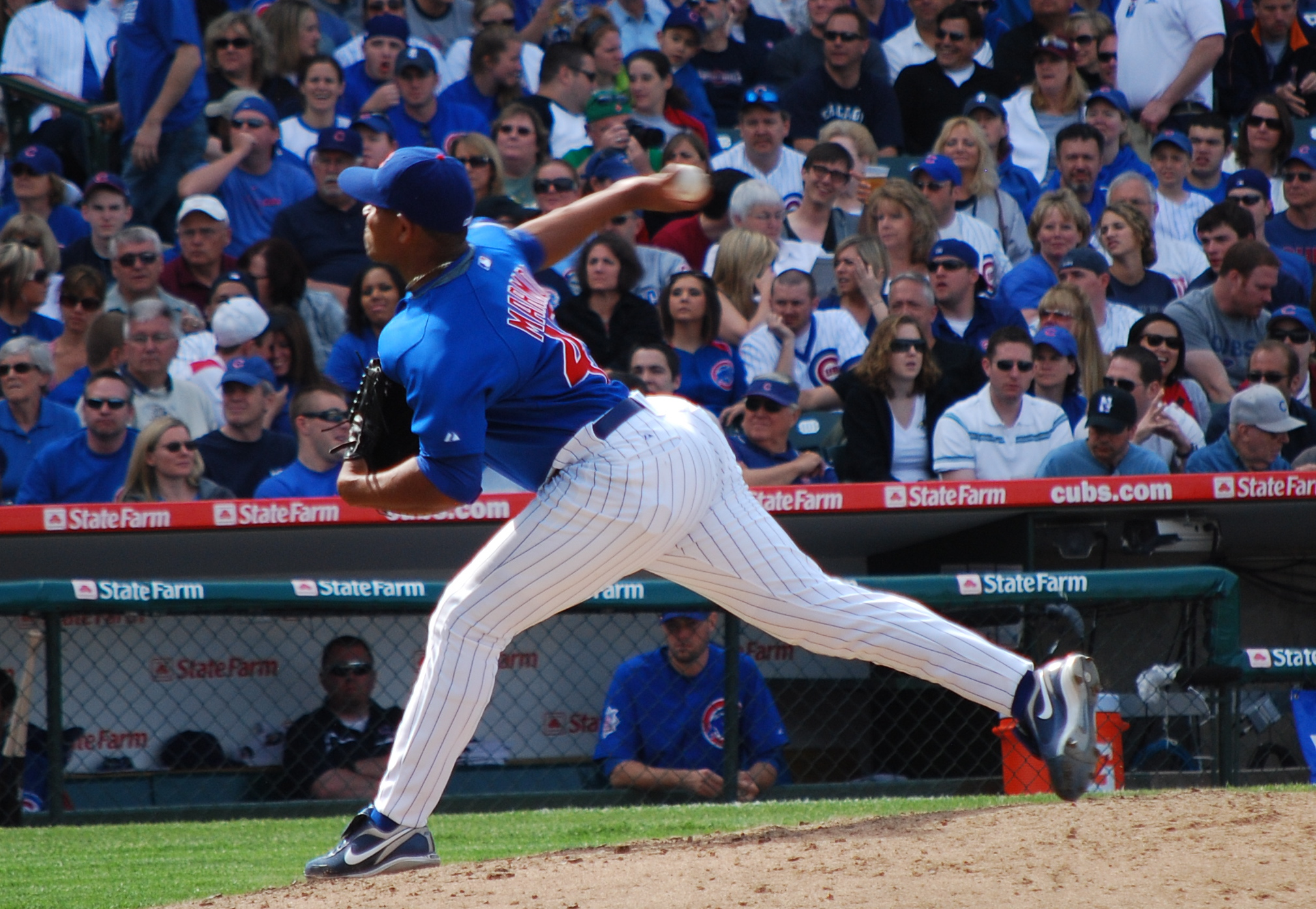 Carlos Marmol pitching for the Chicago Cubs in 2009. Description